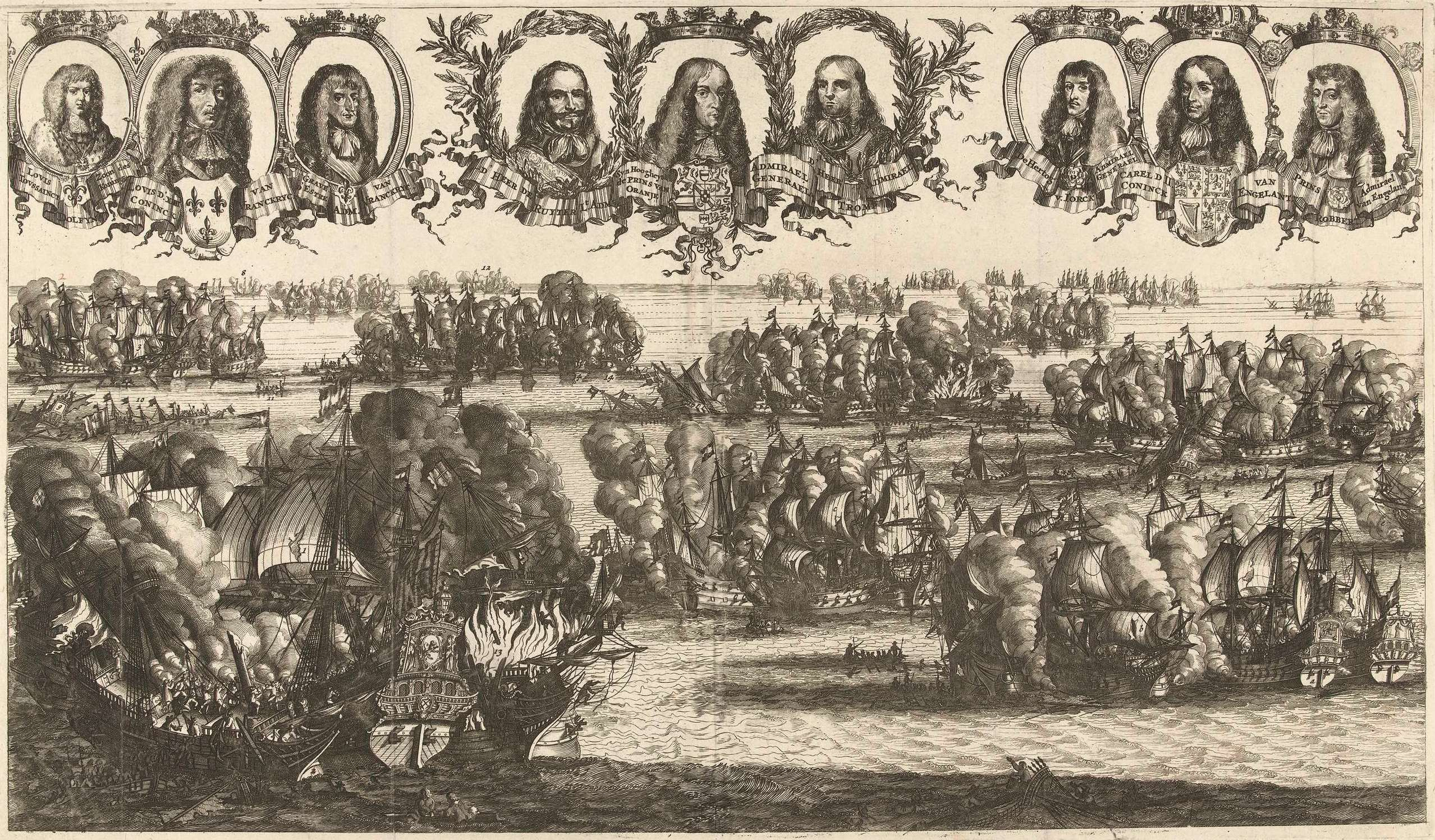 Schooneveld battles of 7 and 14 June 1673 between the combined Anglo-French fleet and the Dutch fleet. Above the battle, left to right: military commanders and leaders French, Dutch and English.